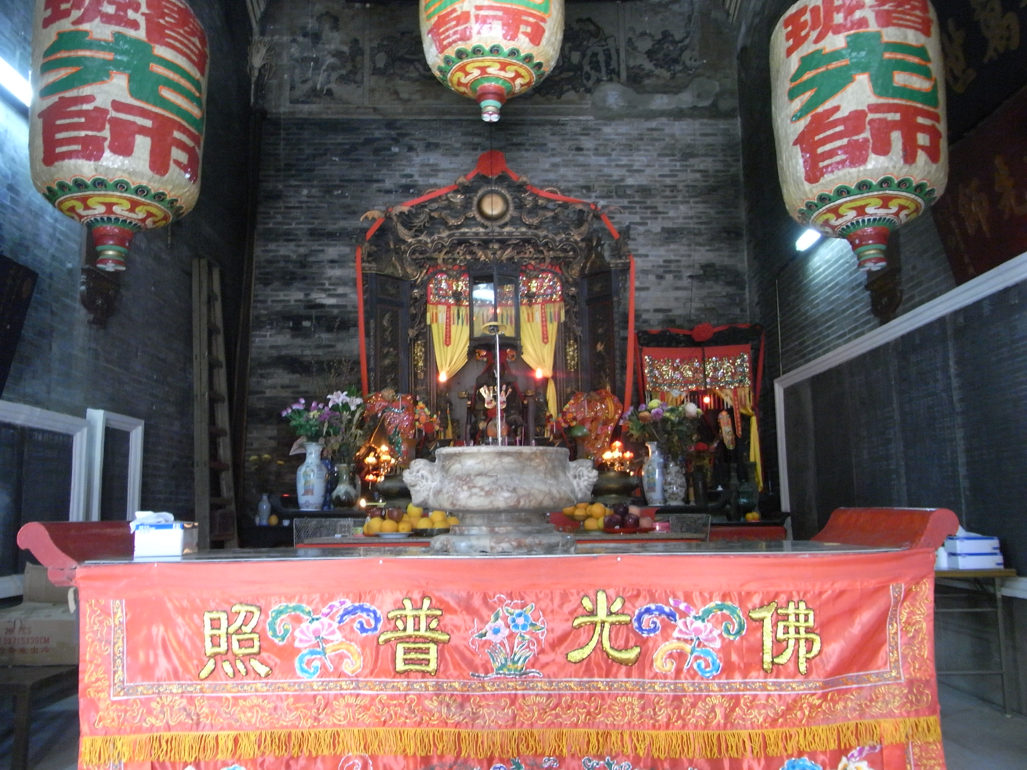 堅尼地城青蓮臺